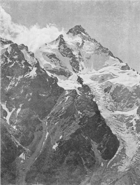 Koshtantau from the Salananchera Glacier.